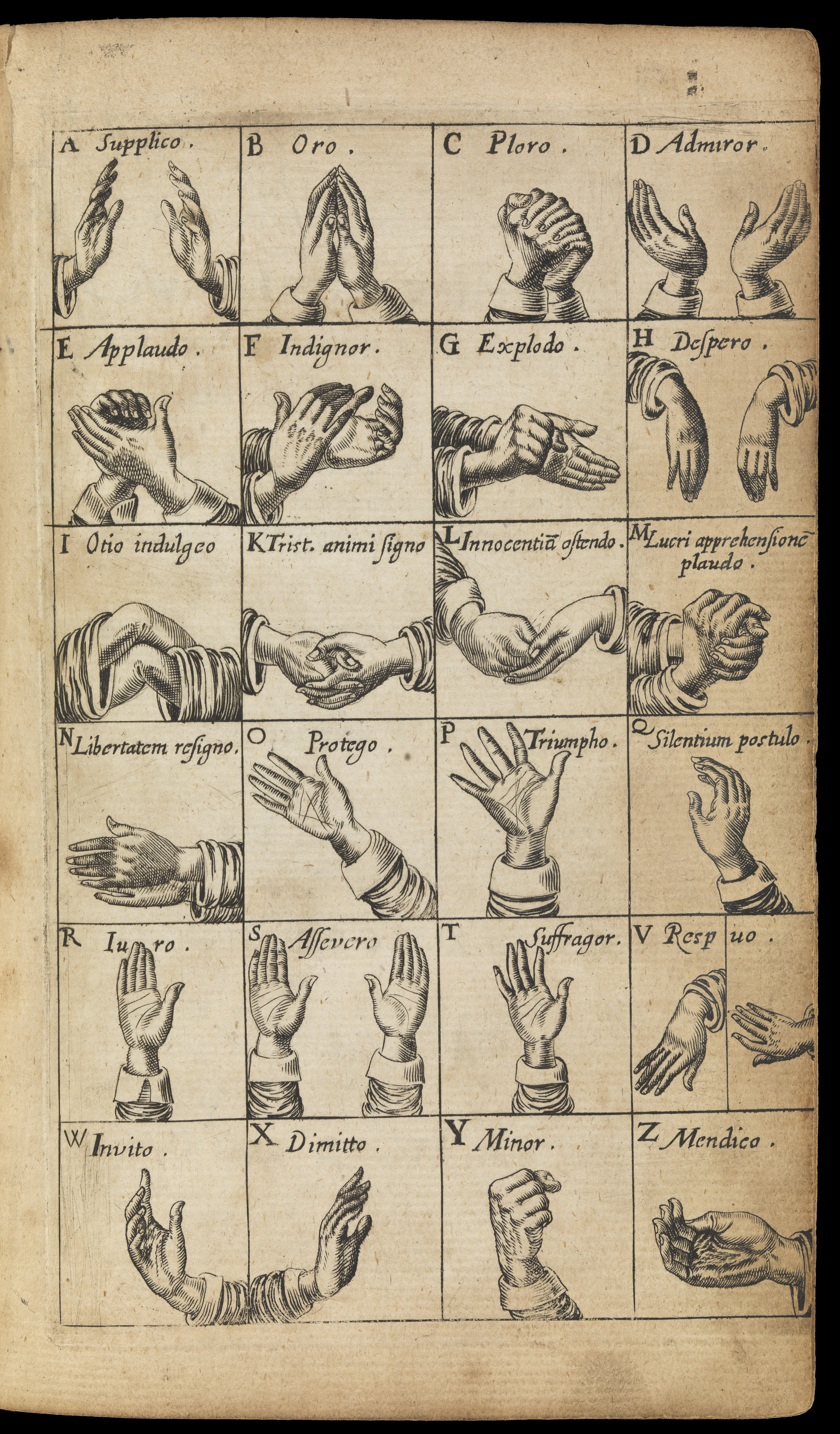 Chirologia: or the naturall language of the hand. Composed of the speaking motions, and discoursing gestures thereof. Whereunto is added Chironomia: or, the art of manuall rhetoricke. Consisting of the naturall expressions, digested by art in the hand, as the chiefest instrument of eloquence, by historicall manifesto's, exemplified out of the authentique registers of common life, and civill conversation / ...By J. B. Gent. Philochirosophus Rare Books Keywords: Manual Communication; Kinesics